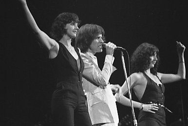 Maple Leaf Gardens, Toronto, April 29, 1977